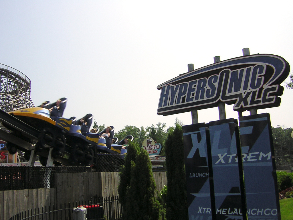 Hypersonic XLC roller coaster at Paramount's Kings Dominion.